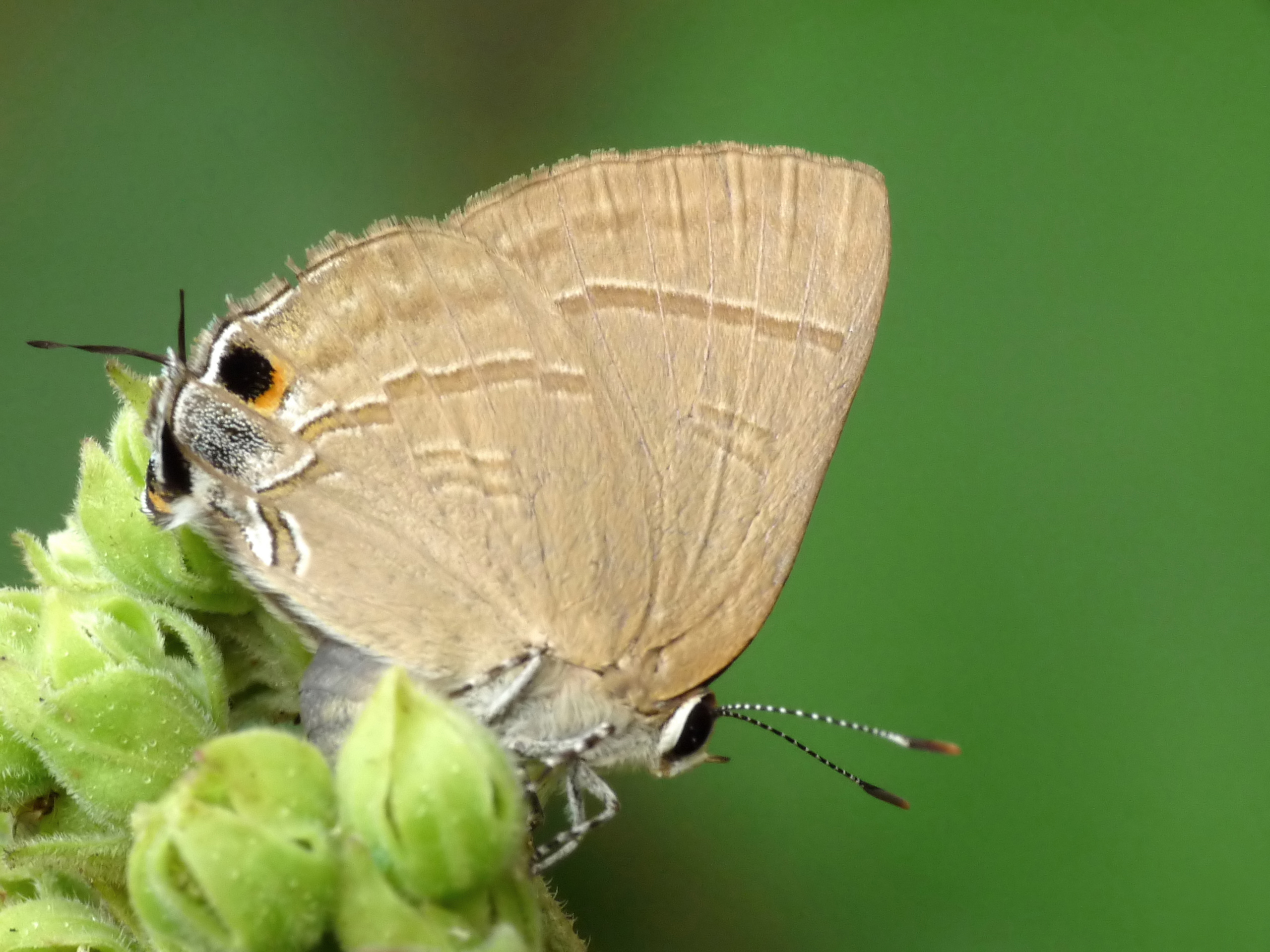 Rapala manea, Slate Flash, is a species of Lycaenidae or blue butterfly found in Asia. Rapala manea schistacea (Moore, 1879) is considered to be a subspecies found in India to northern Thailand, Sri Lanka, southern Yunnan, and possibly the Andamans. Here she is laying eggs on Hill glory bower (Clerodendrum infortunatum). Their larva are attended by ants. Taken at Kadavoor, Kerala, India.